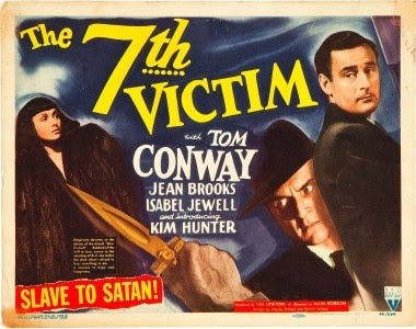 Quad poster for The Seventh Victim, RKO Radio Pictures (1943).